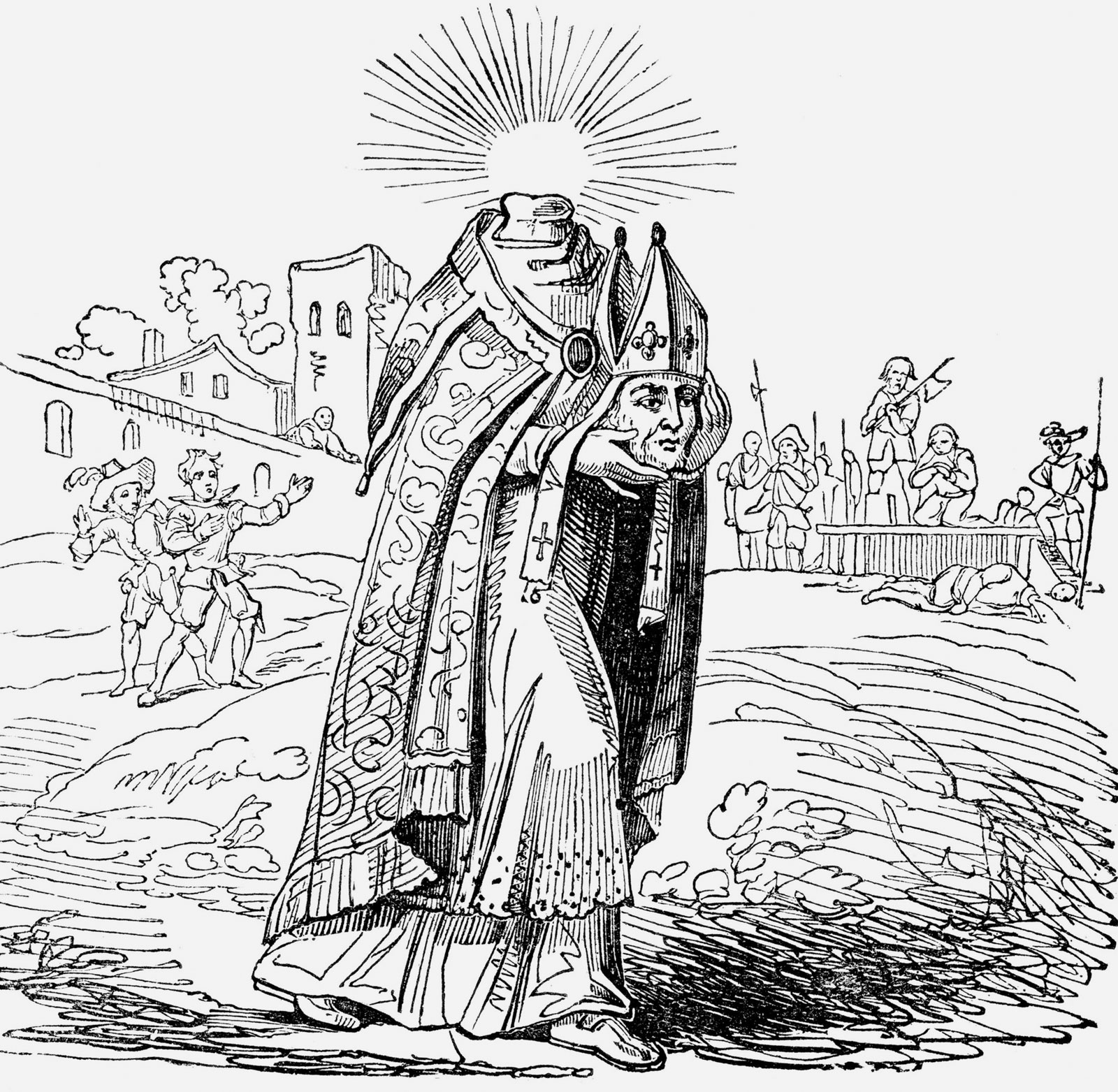 This woodcut depicts Saint Denis [Dennis], Bishop and patron saint of Paris, clad in his bishop's robe, carrying his head in his arms after his martyrdom by decapitation. According to the image citation at Britannica Online: "St. Denis Carrying His Own Head, woodcut, 1826."